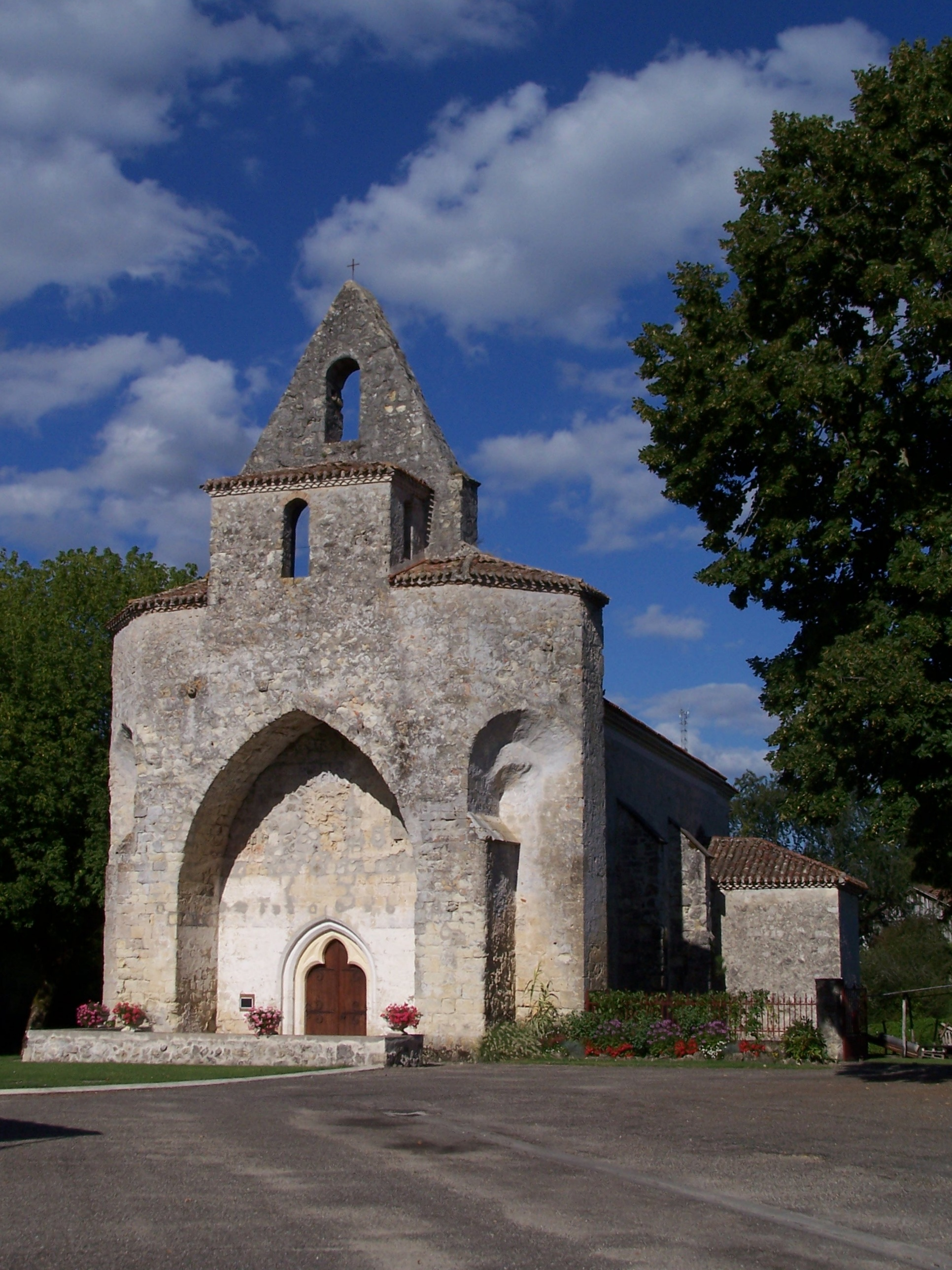 Saint Peter and Saint Paul church of Pindères (Lot-et-Garonne, France)